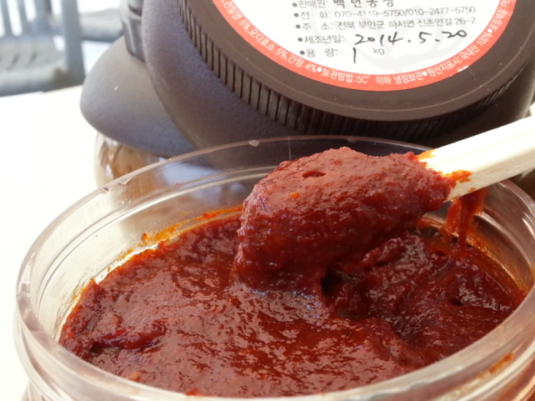 gochujang (chilli paste)